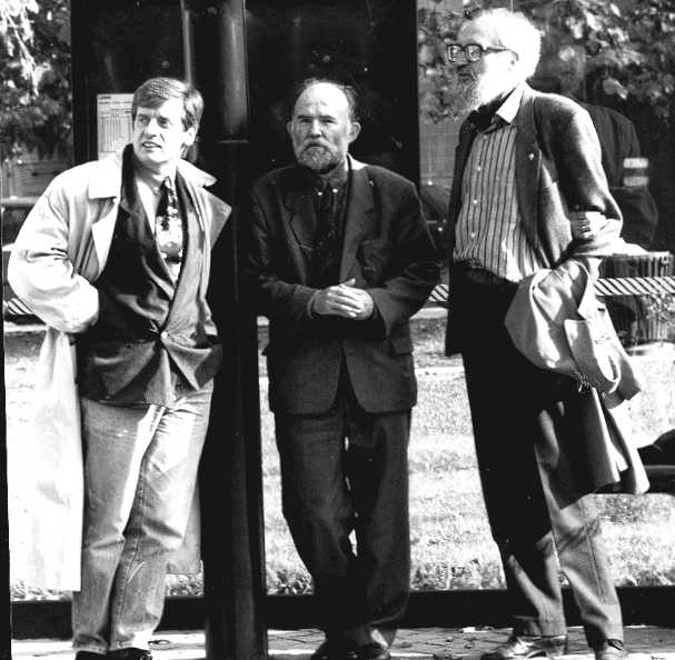 Mu Group (or µ) in 1991 in Liège